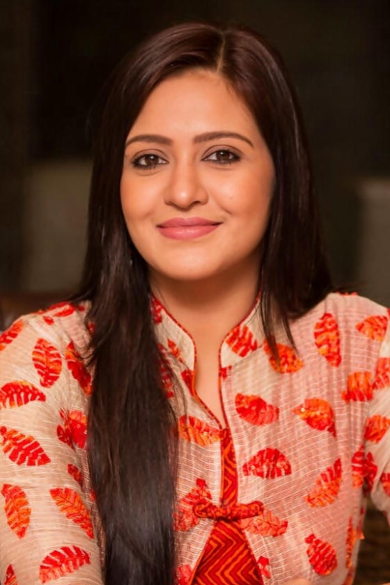 Priyanka Sarkar during a promotional event in 2016